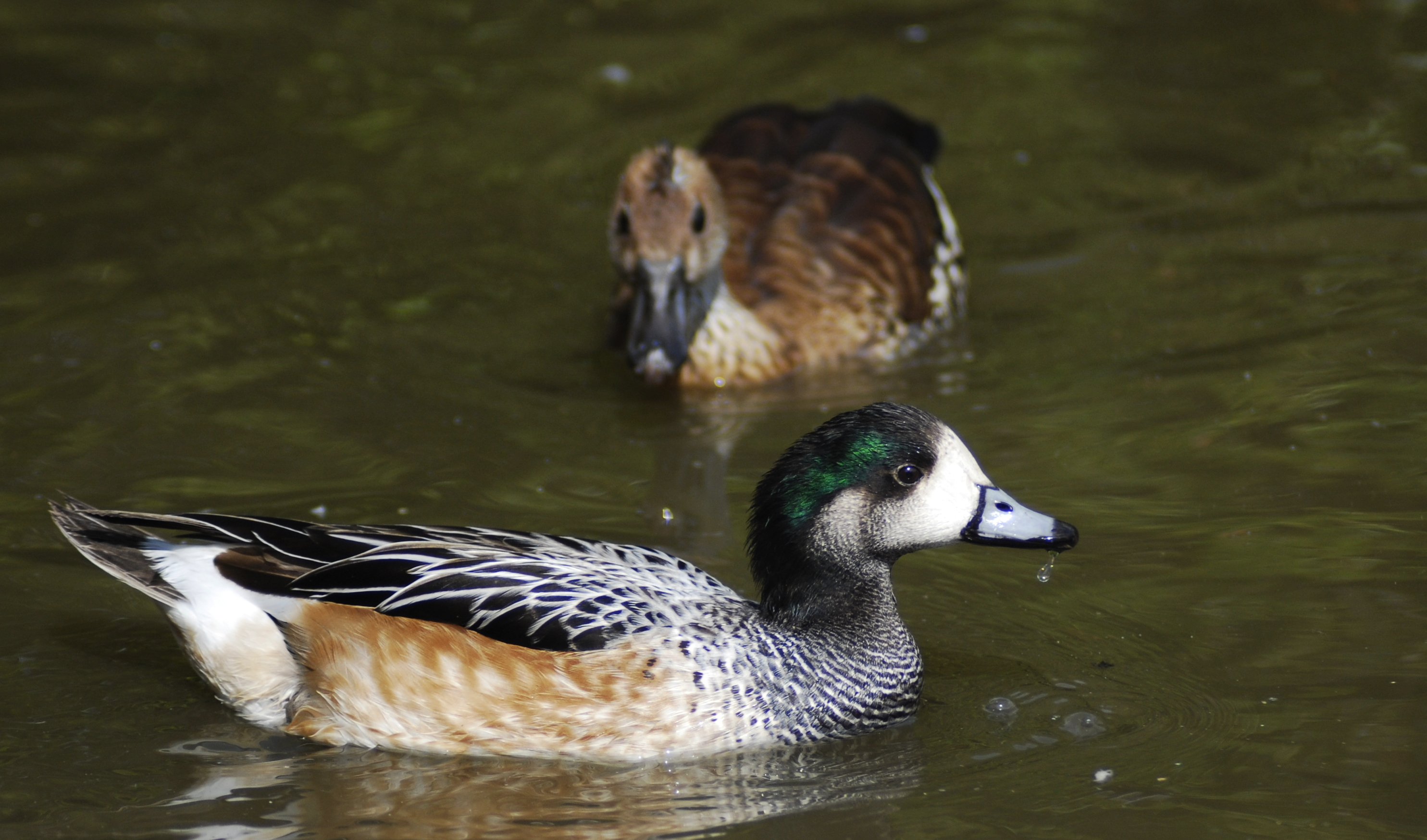 Chilöe Wigeon (Anas sibilatrix) male (foreground) and female (background)